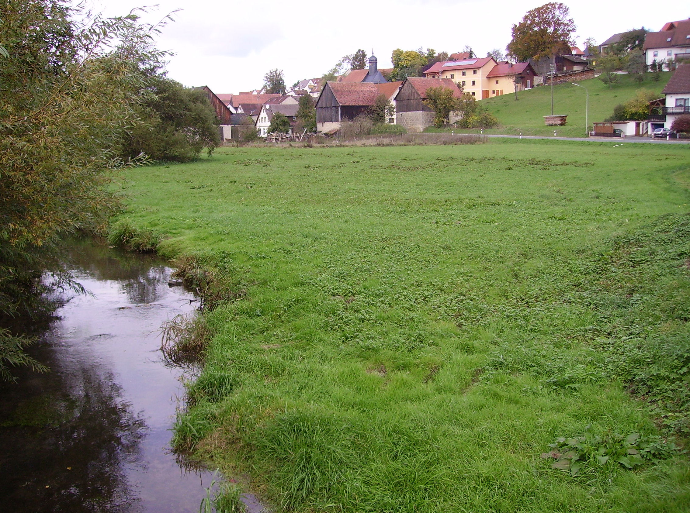 Drosendorf an der Aufseß, part of Hollfeld, Germany